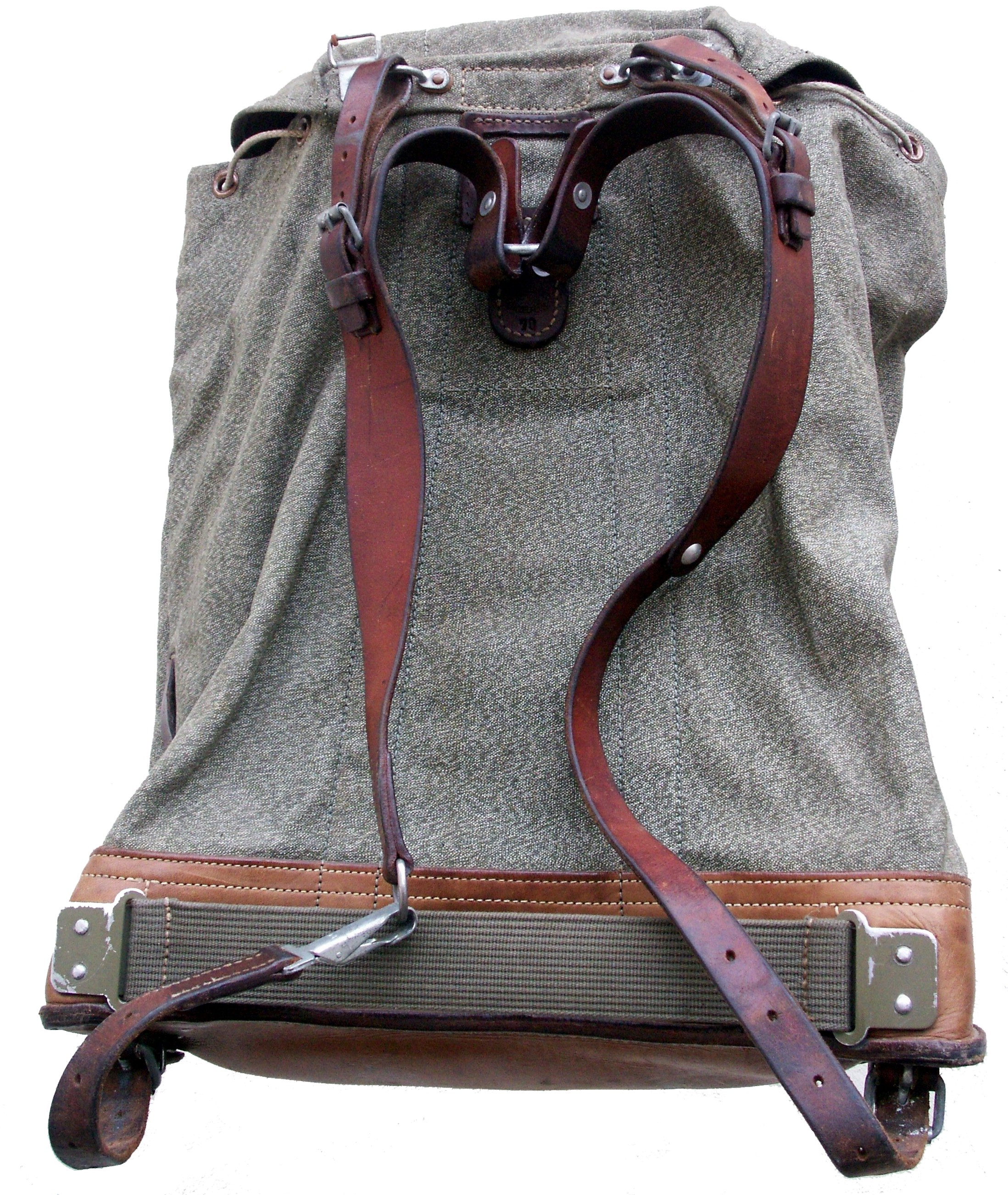 Backpack of the Military of Switzerland.